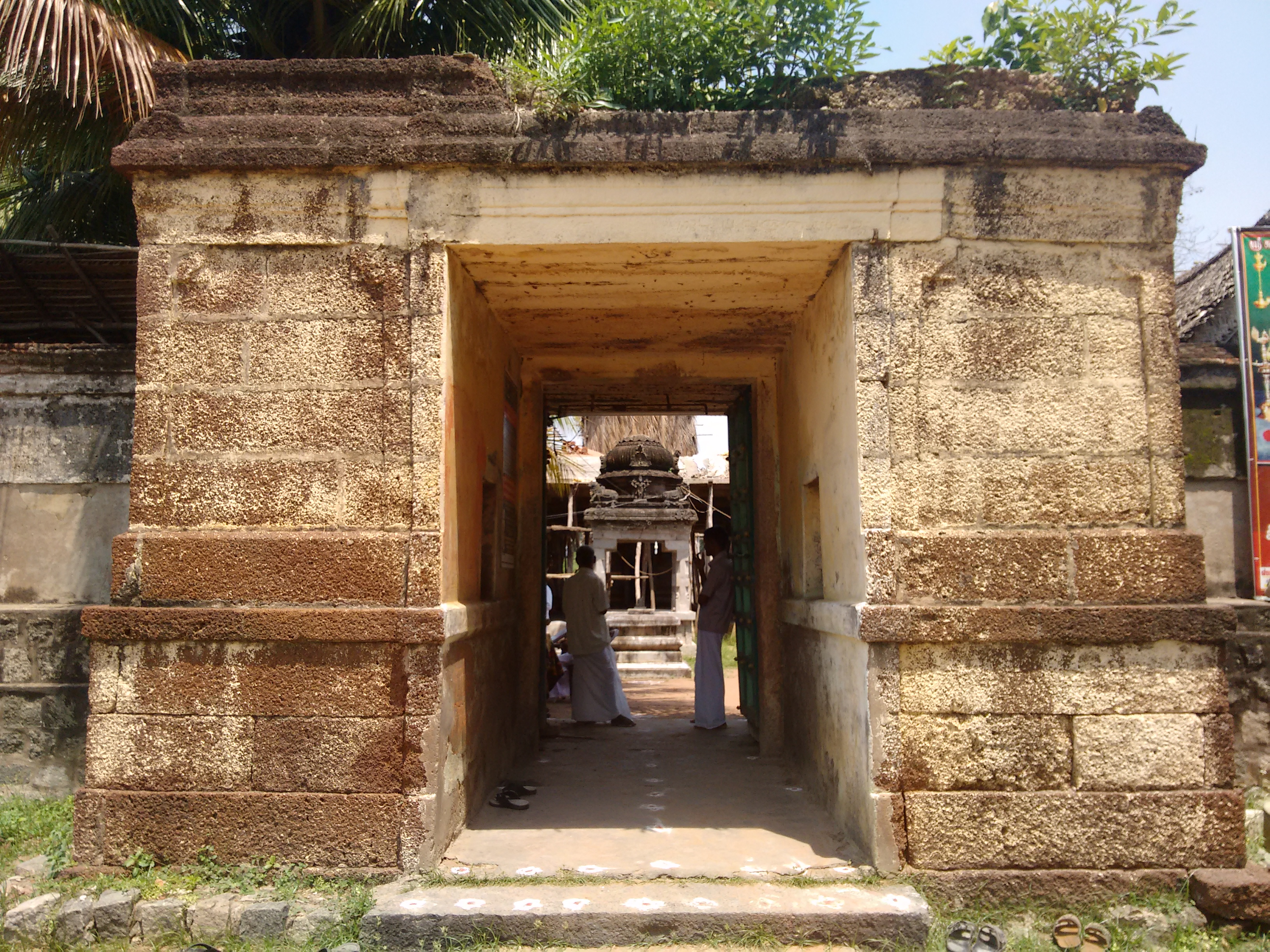 Perumagalur Somanathaswamy Temple பெருமகளூர் சோமநாதசுவாமி கோயில்